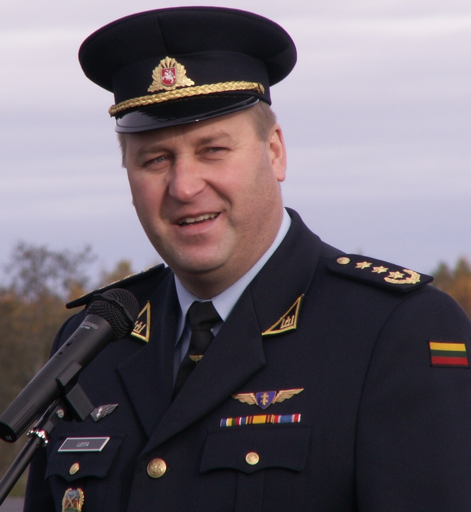 Artūras Leita, General of Lithuania